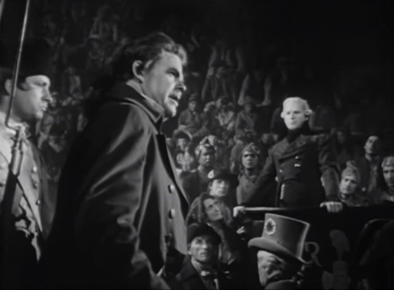 Wade Crosby (foreground) as Danton in Reign of Terror aka The Black Book (cropped screenshot)